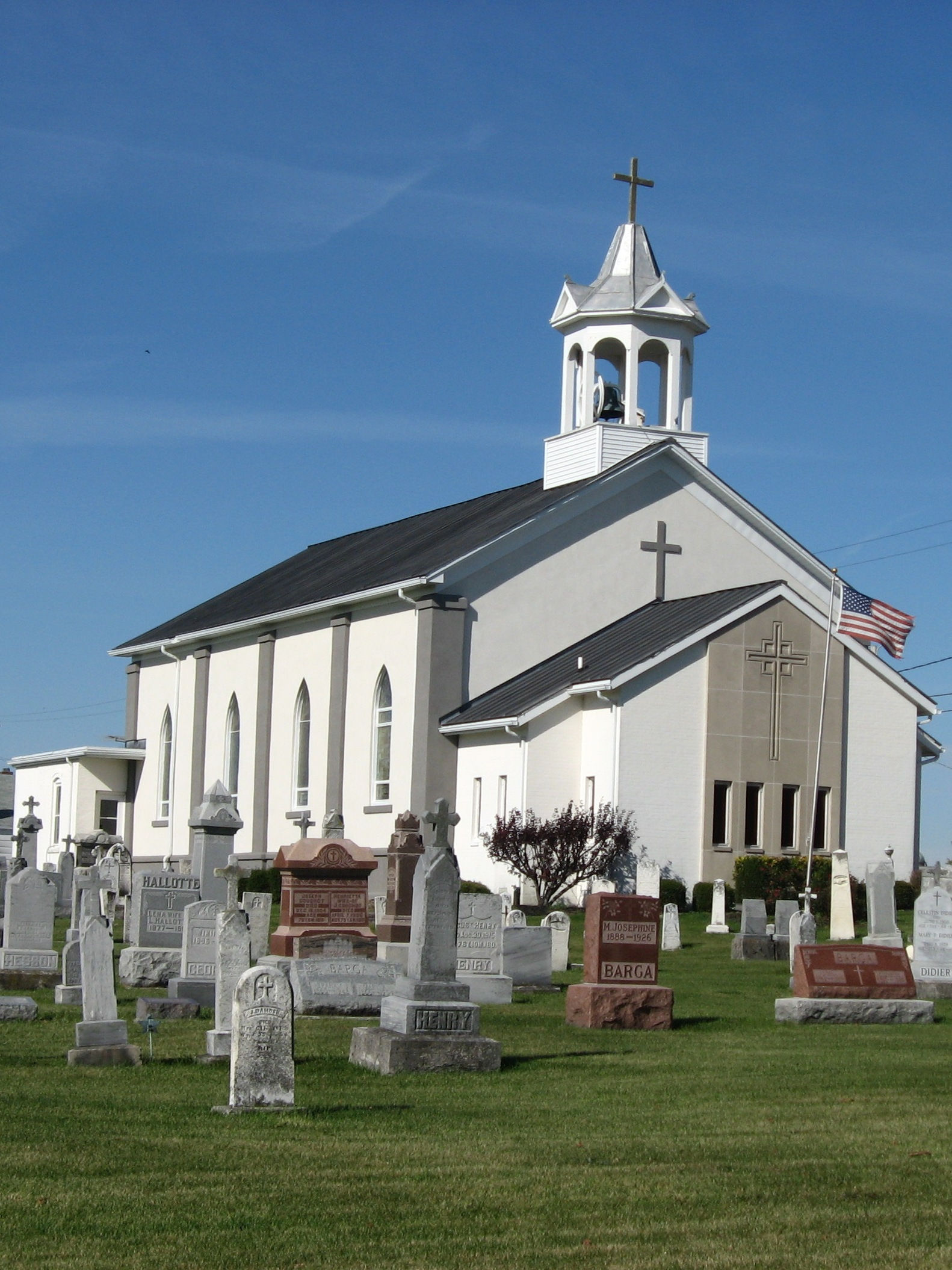 Front of Holy Family Catholic Church, located on the southern side of State Route 185 in Frenchtown, an unincorporated community in Wayne Township, Darke County, Ohio, United States. Built in 1866, the church was added to the National Register of Historic Places as a part of the Cross-Tipped Churches of Ohio Thematic Resources.